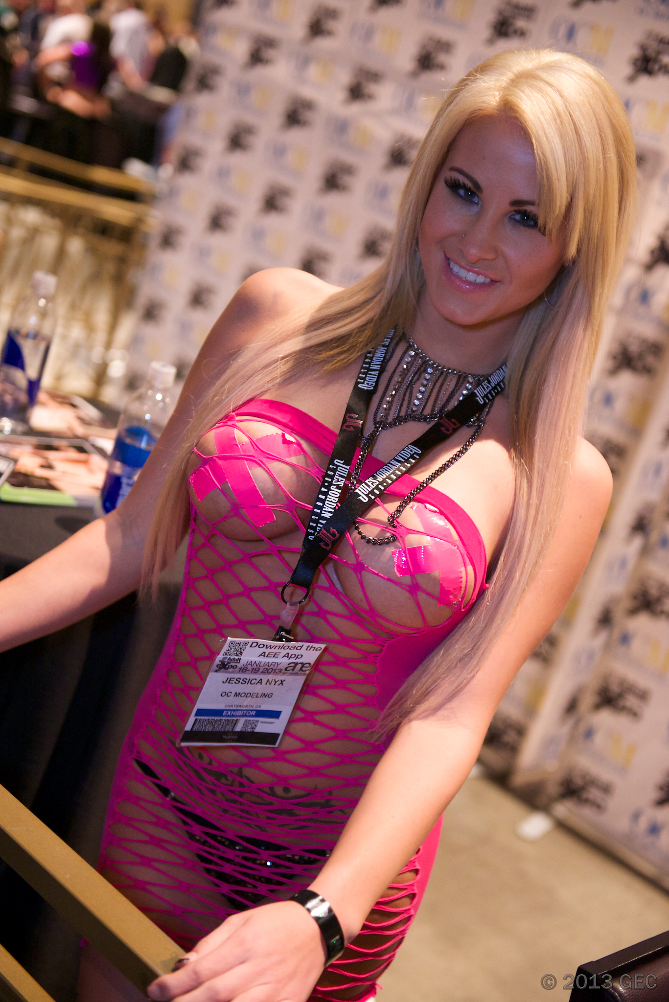 @JessicaNyx. 2013 AVN Adult Entertainment Expo AEE at Hard Rock Hotel - Las Vegas. 2013 © GEC.